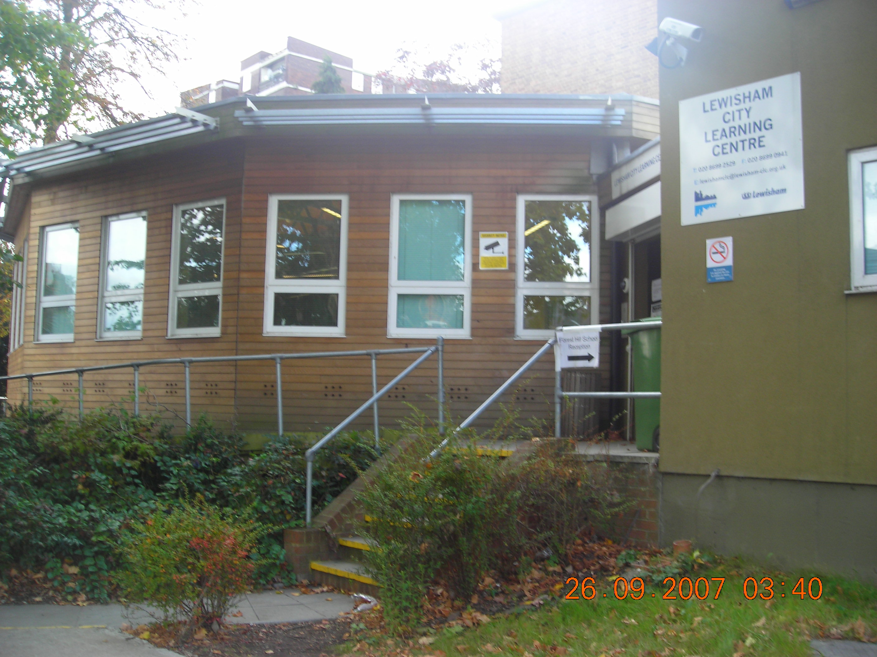 Lewisham clc